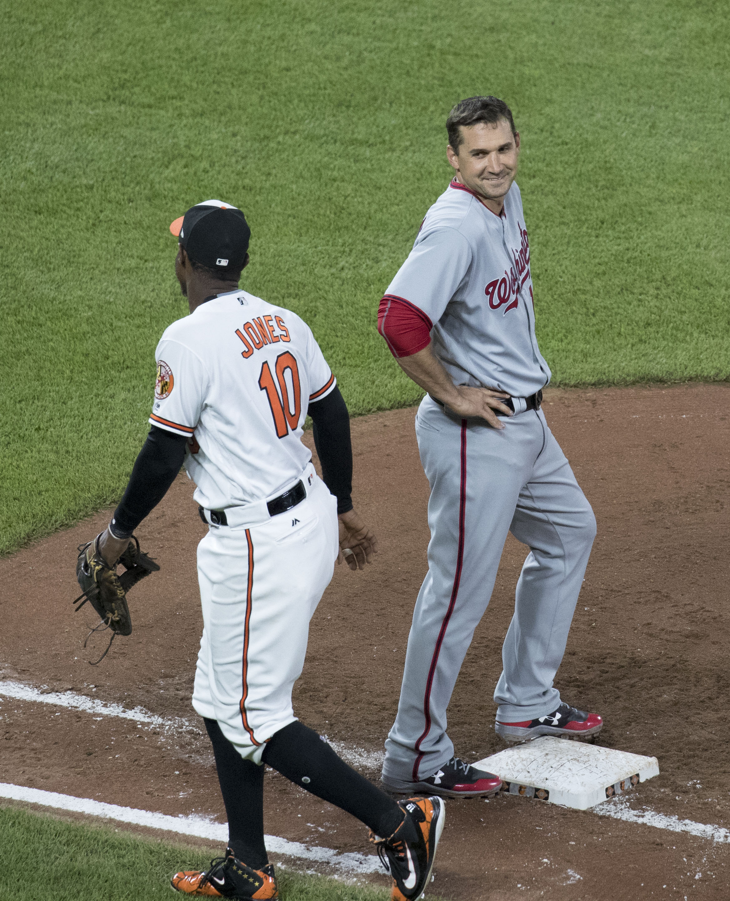 Nationals at Orioles 5/8/17